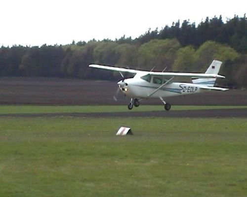 D-EOLP, the Reims Cessna F182Q during landing at Kührstedt-Bederkesa (EDXZ), Germany